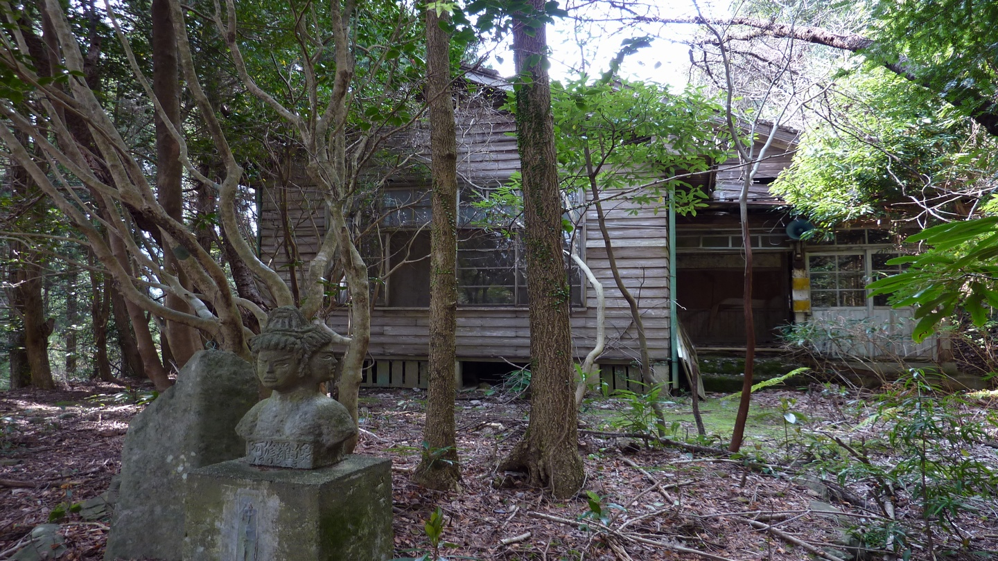 Sabukawa School - Abolished (Saito City, Miyazaki Prefecture, Japan)